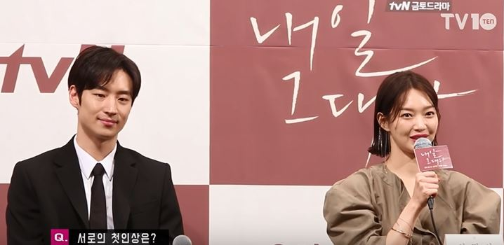 Lee Je-hoon and Shin Mina, at the press conference ofTomorrow With You